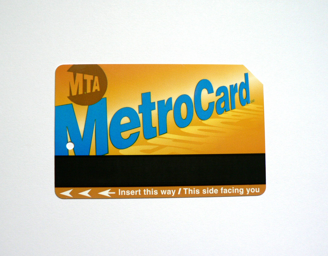 Photo taken by EyOne.